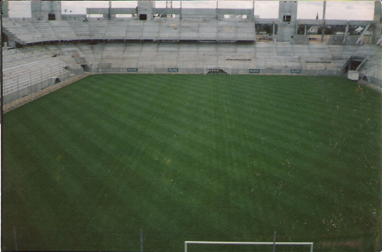 michel d'ornano stadium in construction